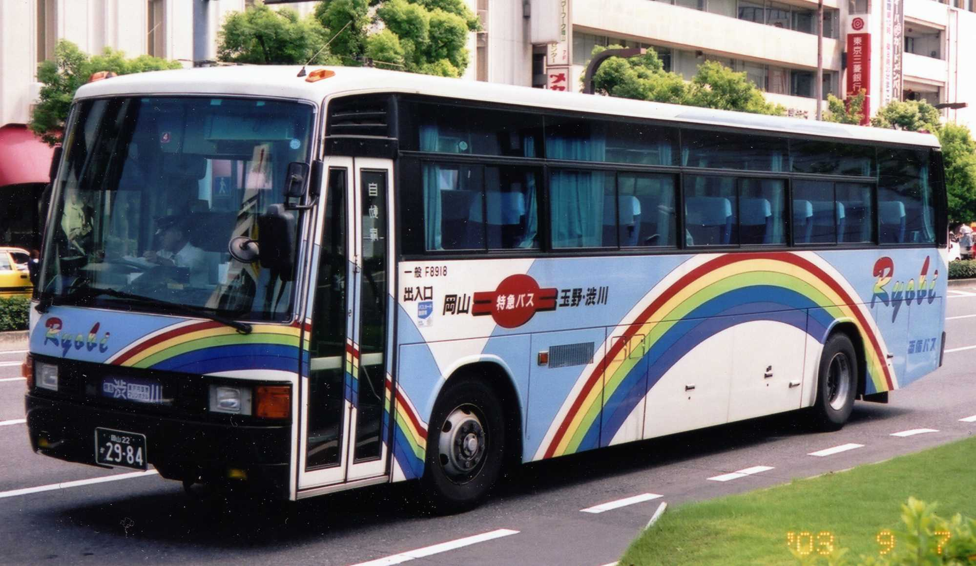 Ryobi Bus "Shibukawa Limited Express" Mitsubishi P-MS725SA 2003.09.07 At Okayama Sta. Photo by Cassiopeia_sweet.